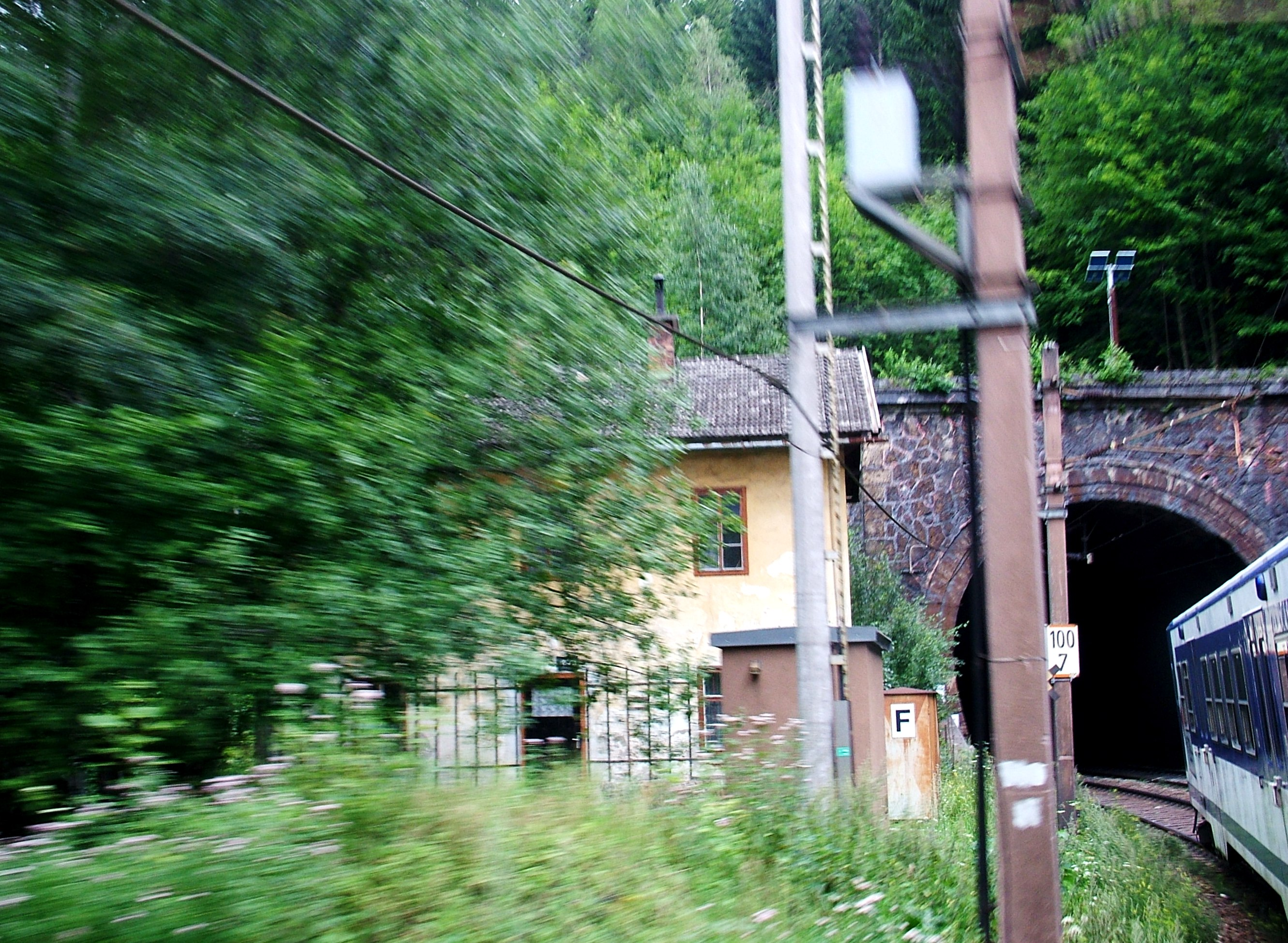 The Semmering